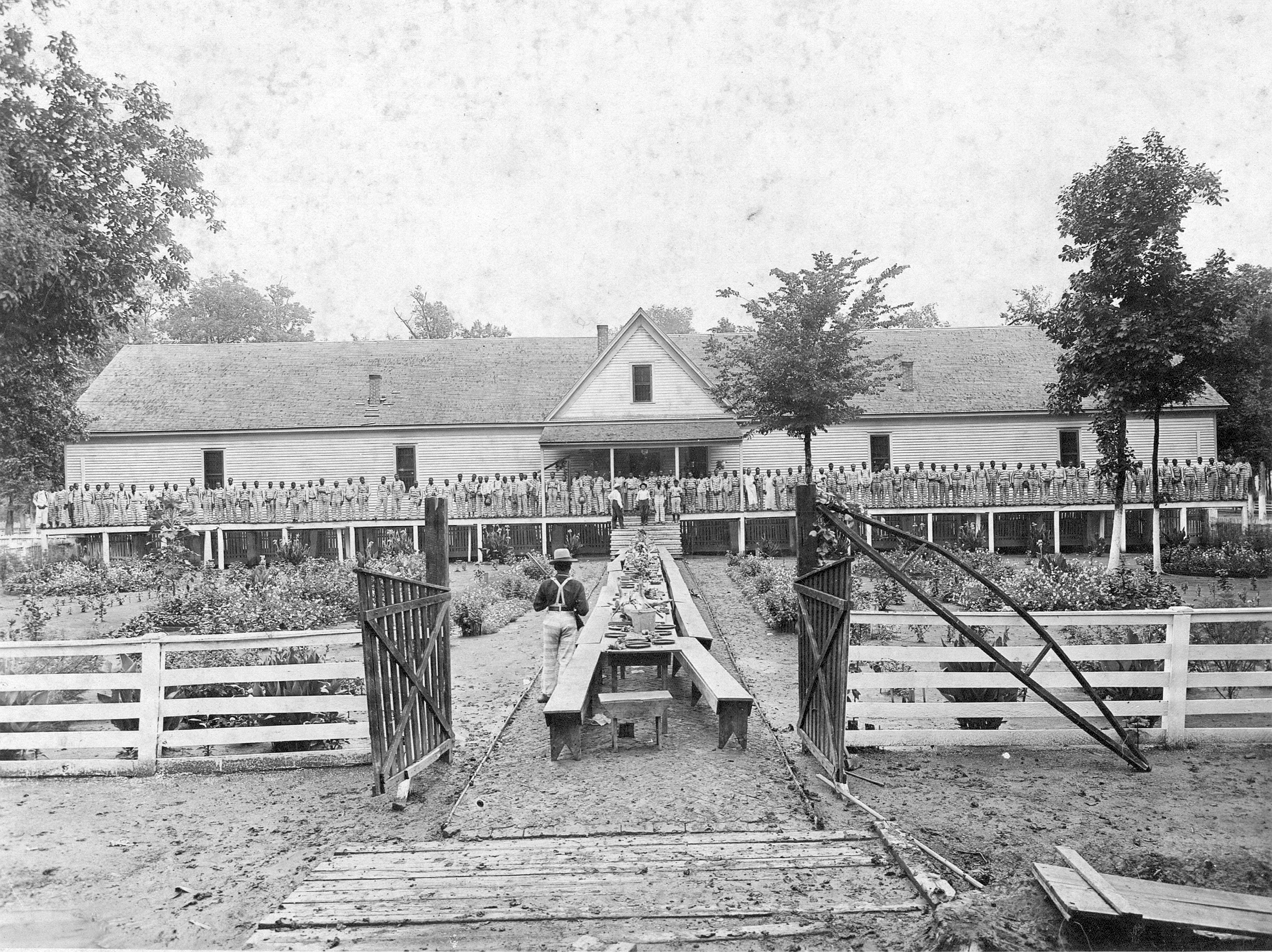 Collection: Mississippi State Penitentiary (Parchman) Photo Collections Call Number: PI/PEN/P37.4 - 72 System ID: 99006. Link to the catalog From Parchman Penitentiary. Male prisoners on the porch of a one-story building with a long table in the yard. Please see our profile page for information on ordering. Scanned as TIFF in 2008/20/06 by MDAH. Credit: Courtesy of the Mississippi Department of Archives and History.